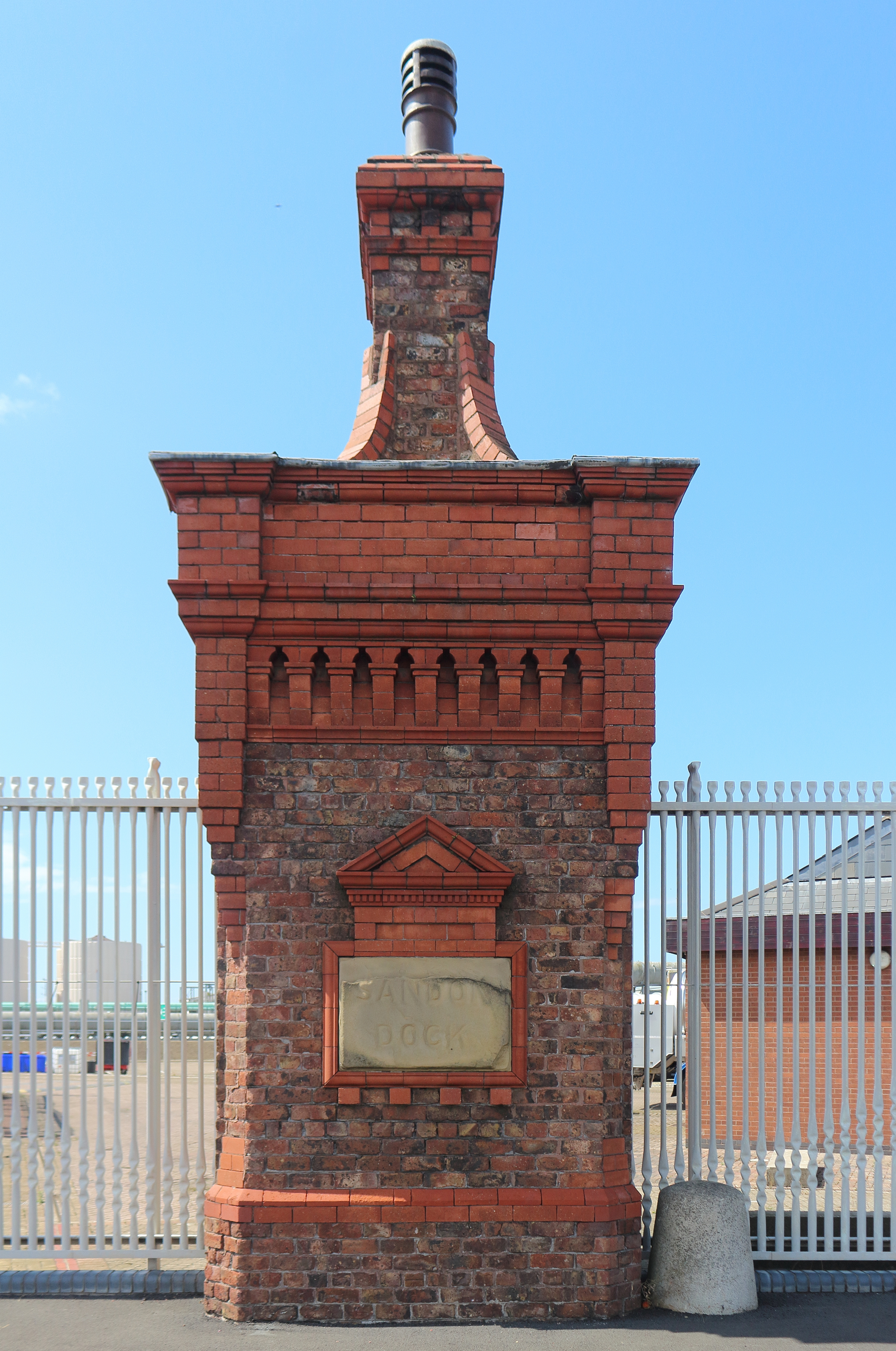 Closer view of the central lodge, with stone panel reading "Sandon Dock" and chimney for the gatekeeper's fire.